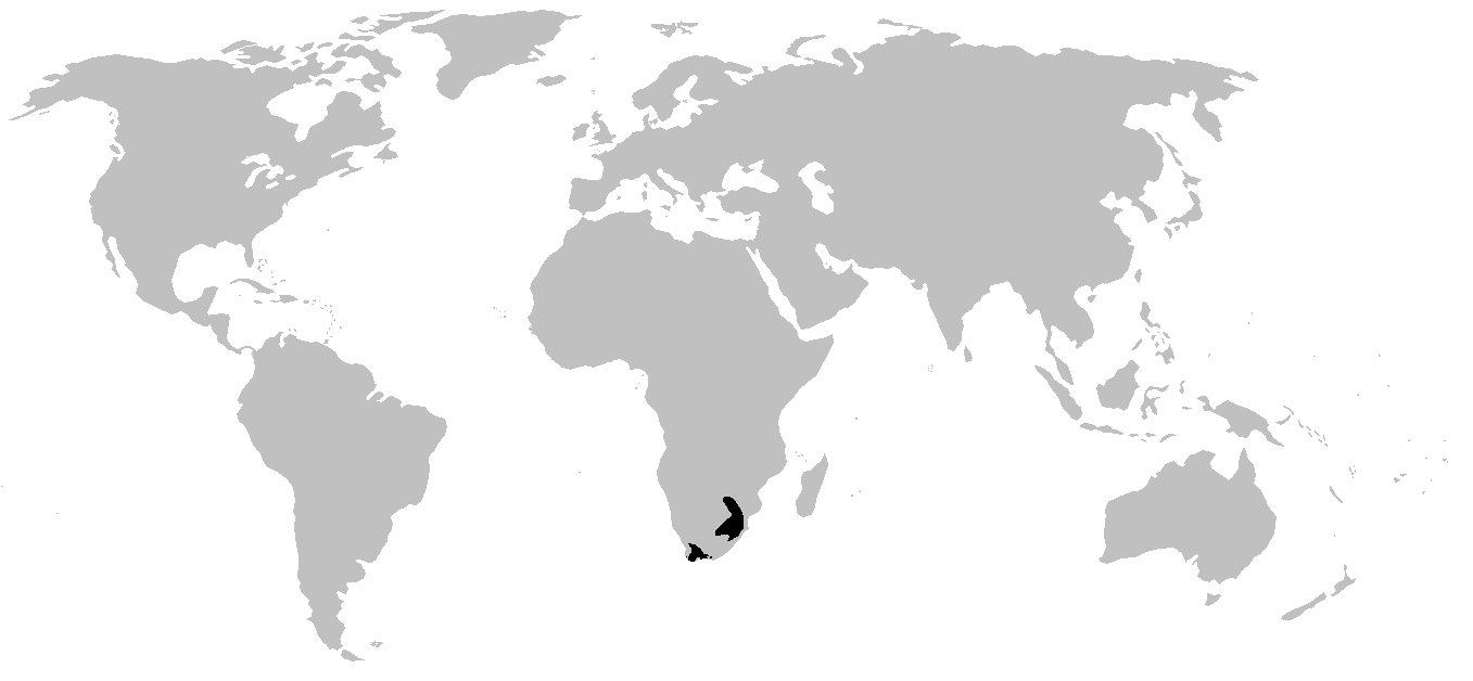 Range of the Ghost frogs, Heleophrynidae.